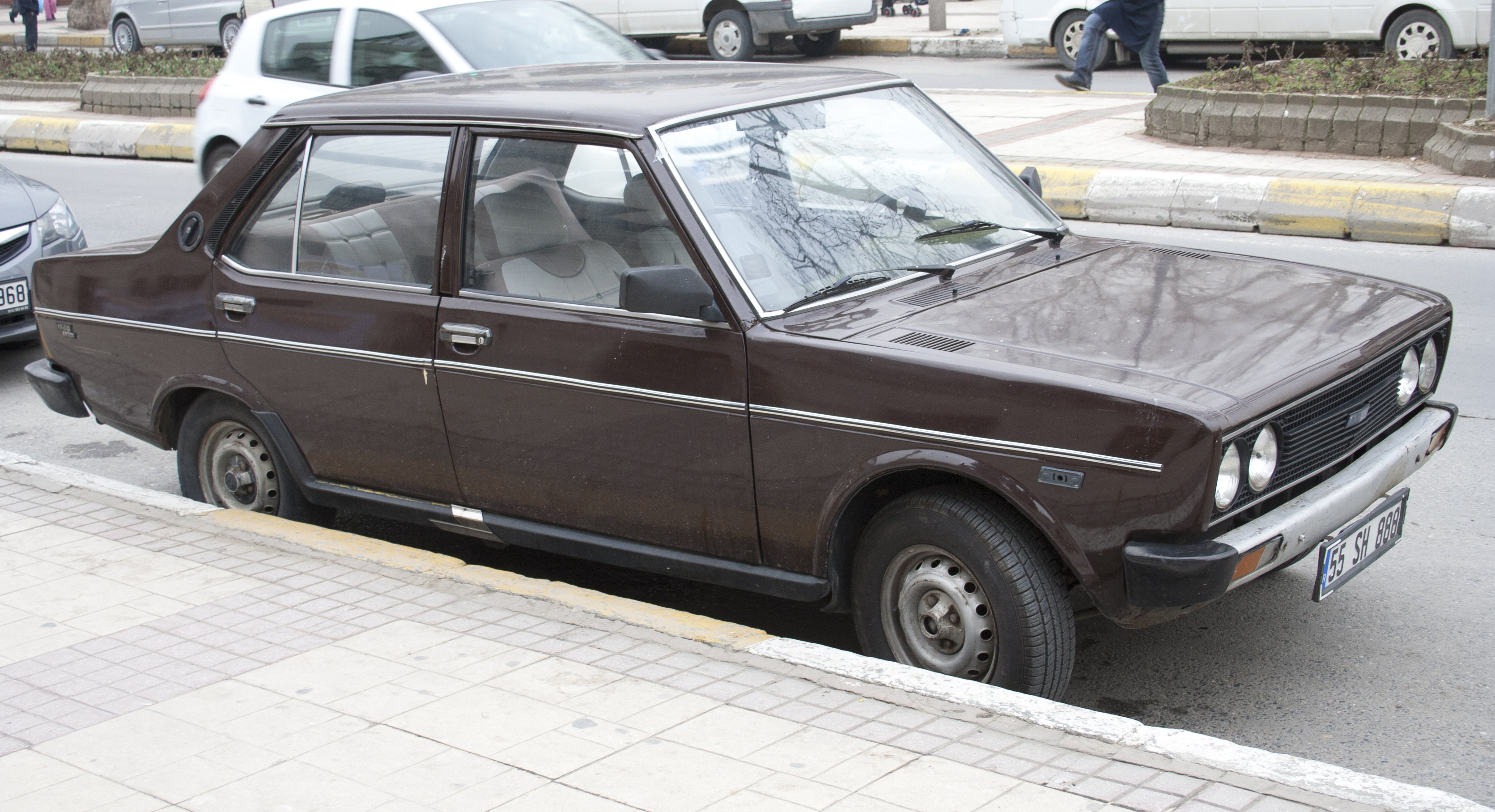 1982-1984 Tofaş Murat 131 Doğan 1600 5 Vites in Üsküdar, Istanbul. Originally only the top-of-the-line Doğan received a five-speed gearbox. Other differences include a full-fabric interior, heated rear window, and no ventilation windows in the front doors. By 1984 the Doğan was updated with big rectangular headlights.